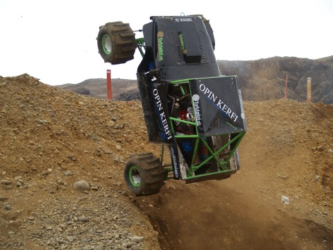 Showing a formula offroad 4x4 truck driving up a steep slope and almost rolling over.